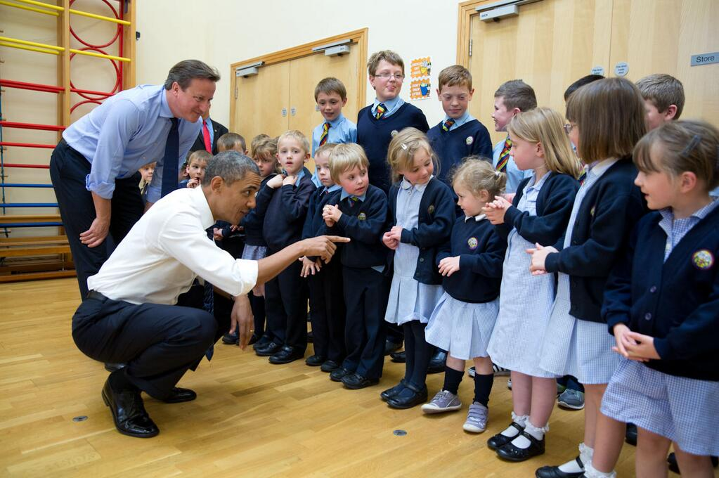 Prime Minister David Cameron of the United Kingdom observes President Barack Obama of the United States pointing at a young schoolgirl in Enniskillen Primary School, in Enniskillen, Northern Ireland on 17 June 2013.